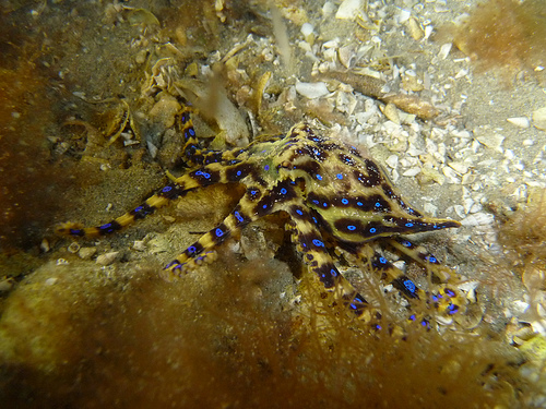 Blue ring octopus at night. Taken at Blairgowrie Marina, Victoria, AU